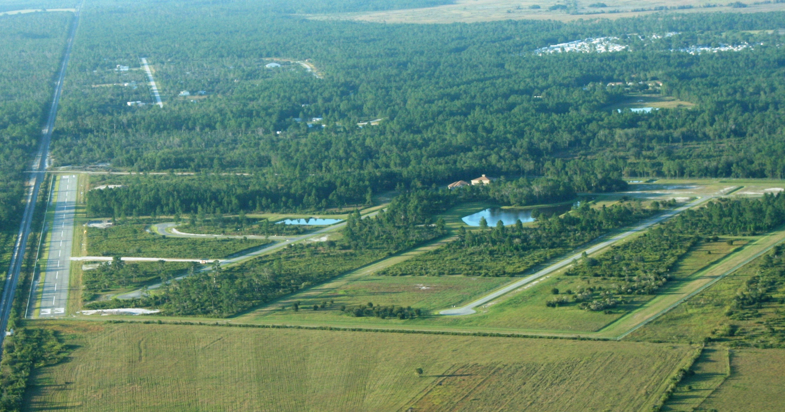 This is a recent aerial picture of the runway and part of Ridge Landing Airpark